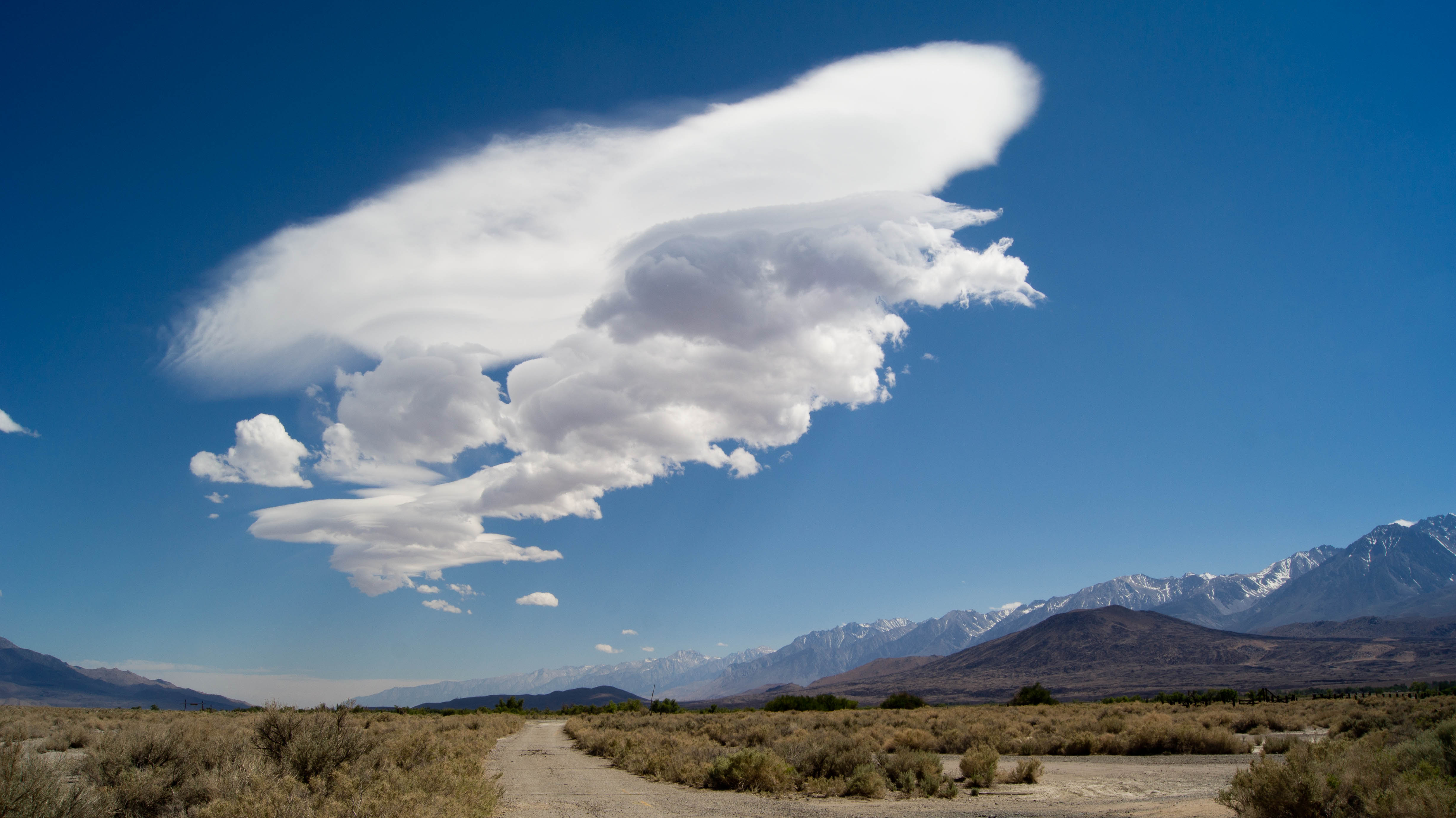 Orographic wave clouds in Owens valley, California